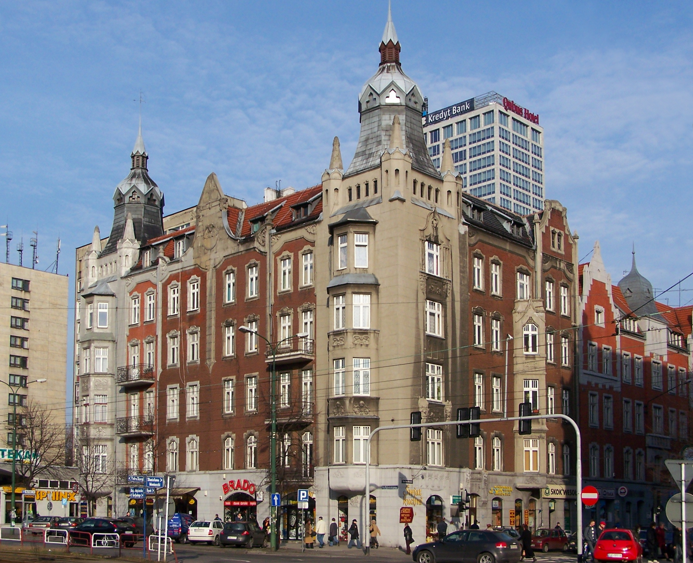 Tenement in Katowice (Poland).